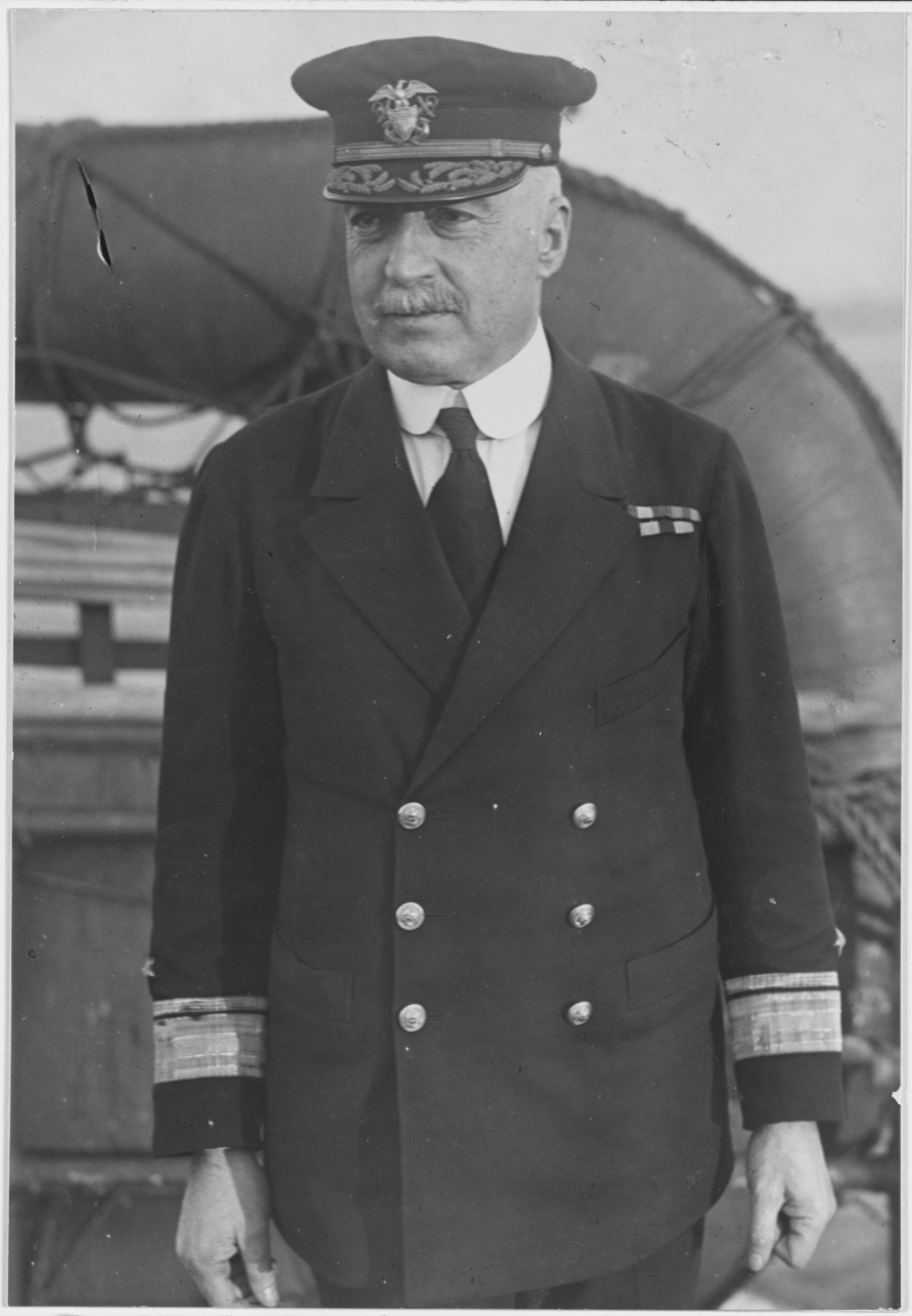 Rear Admiral Joseph Strauss on USS Blackhawk, 1919